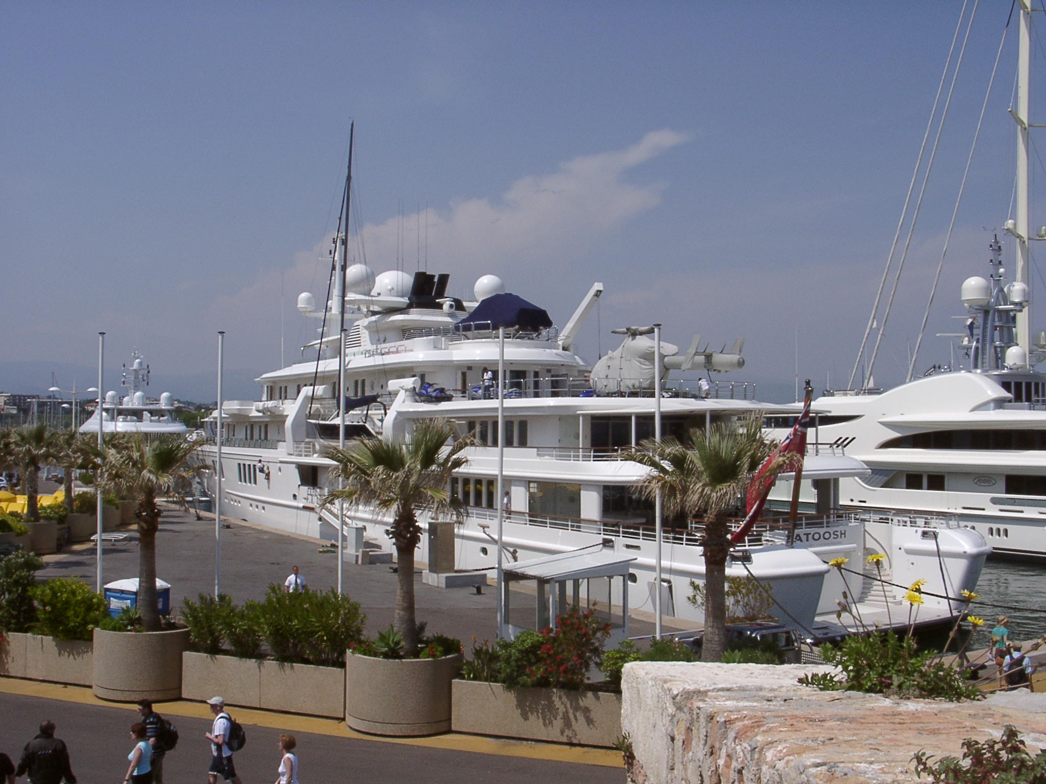 Tatoosh at Antibes Harbour in May 2008.